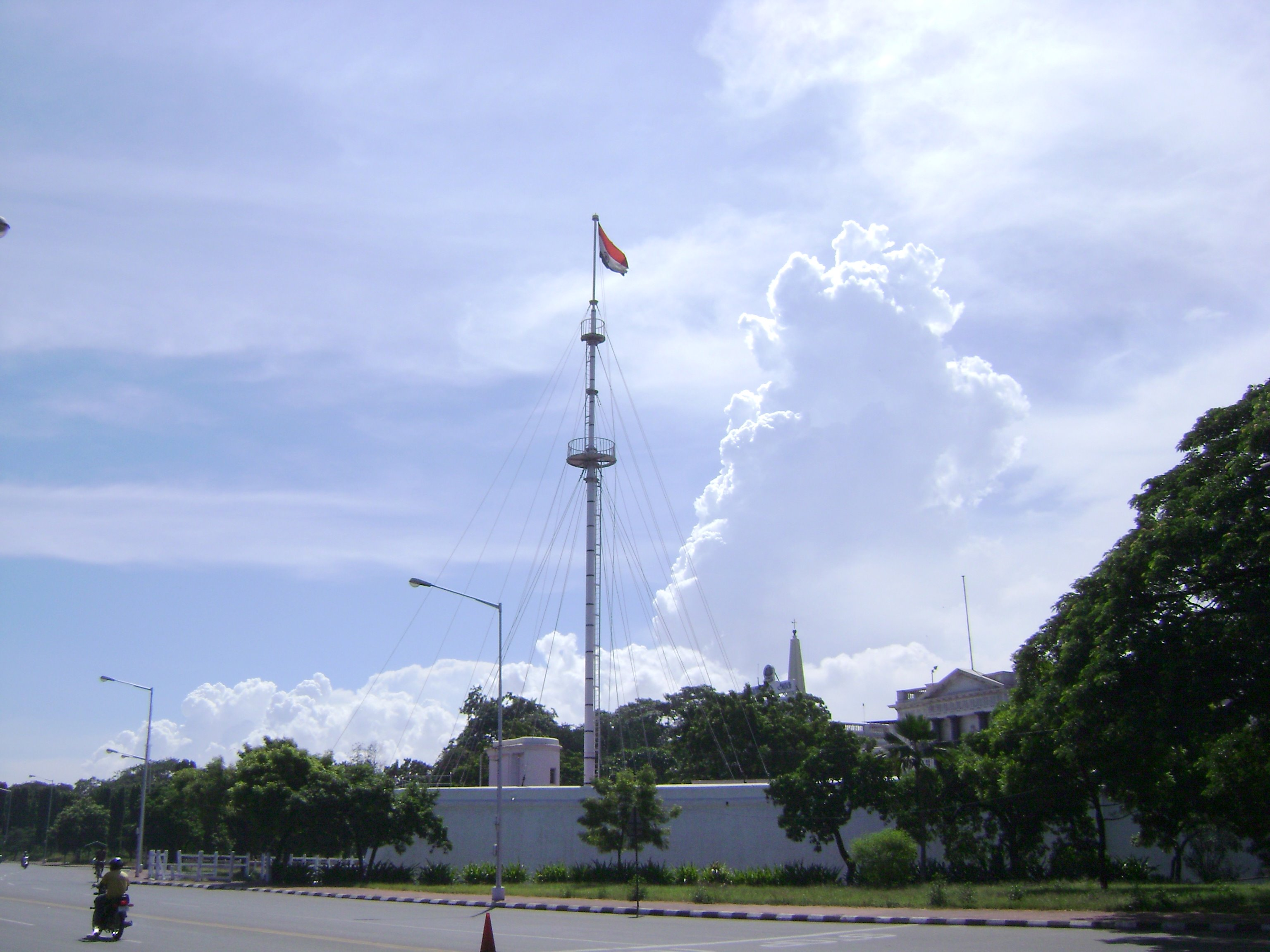 Flag post at Fort St. George, Chennai